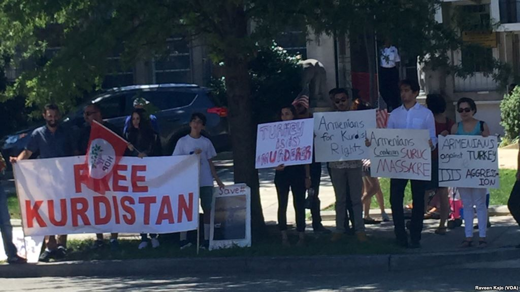 Kurds and Armenians protest Turkey after Suruç bombing in front of theTurkish Embassy in Washington D.C., United States.